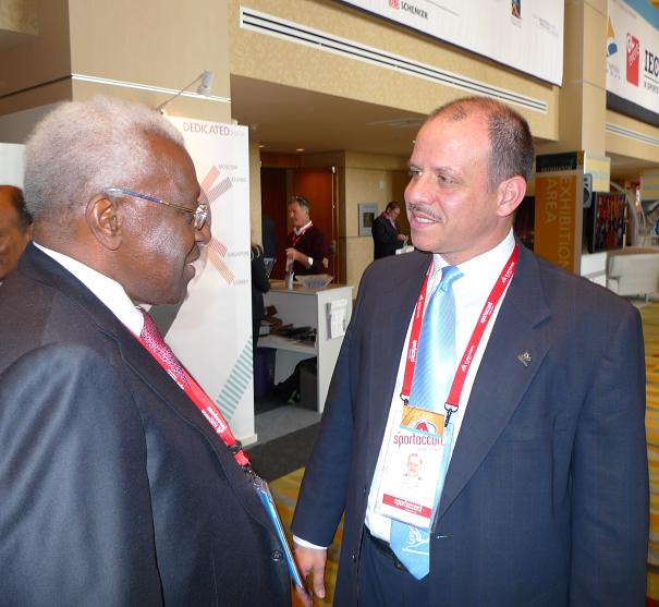 IAAF President Lamine Diack (left) with HRH Prince Feisal, founder and president of Generations for Peace at Sportaccord, March 24, 2009 in Denver. (ATR / Panasonic:Lumix)